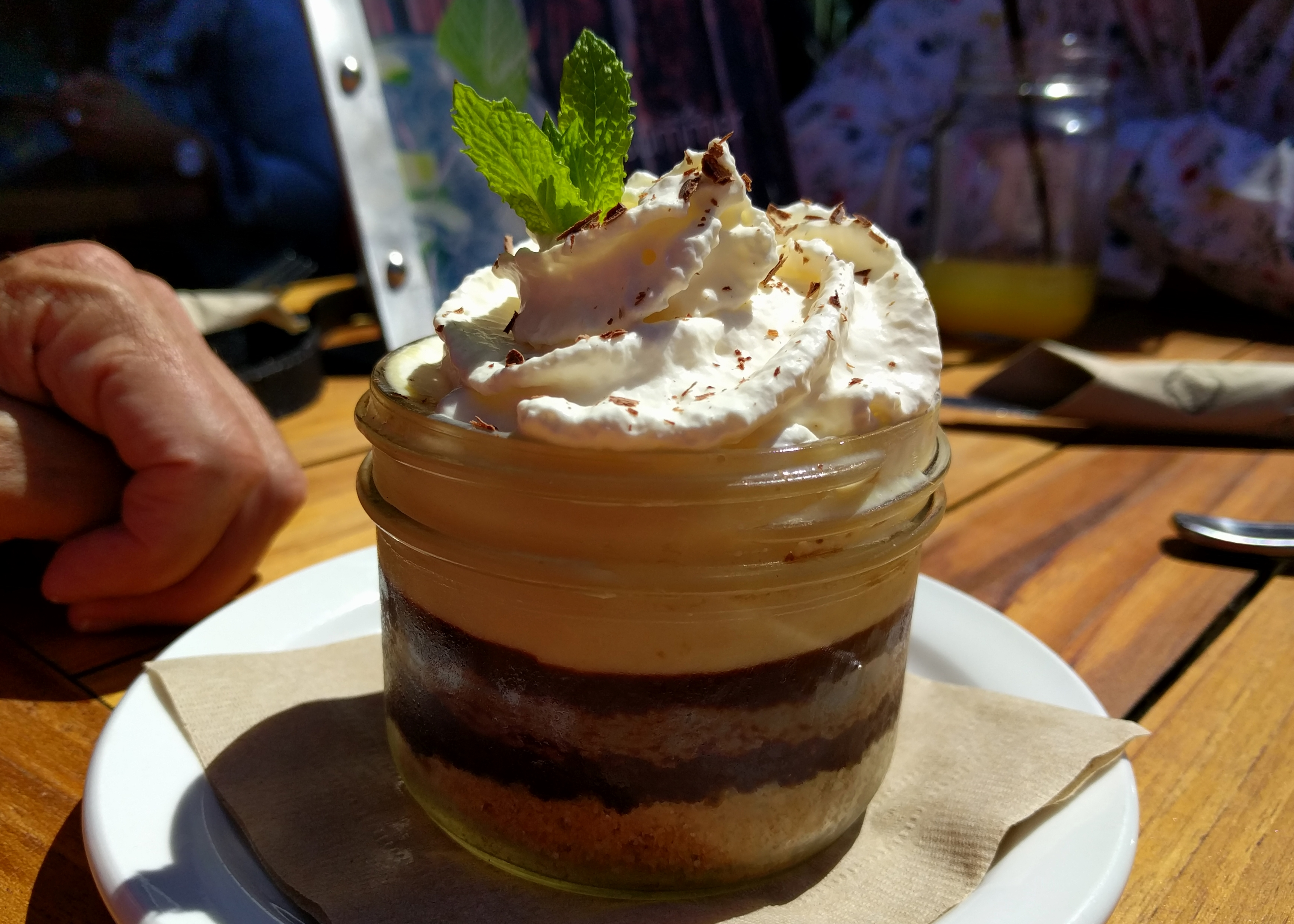 Black Bottom Pie, prepared in Vancouver, BC.